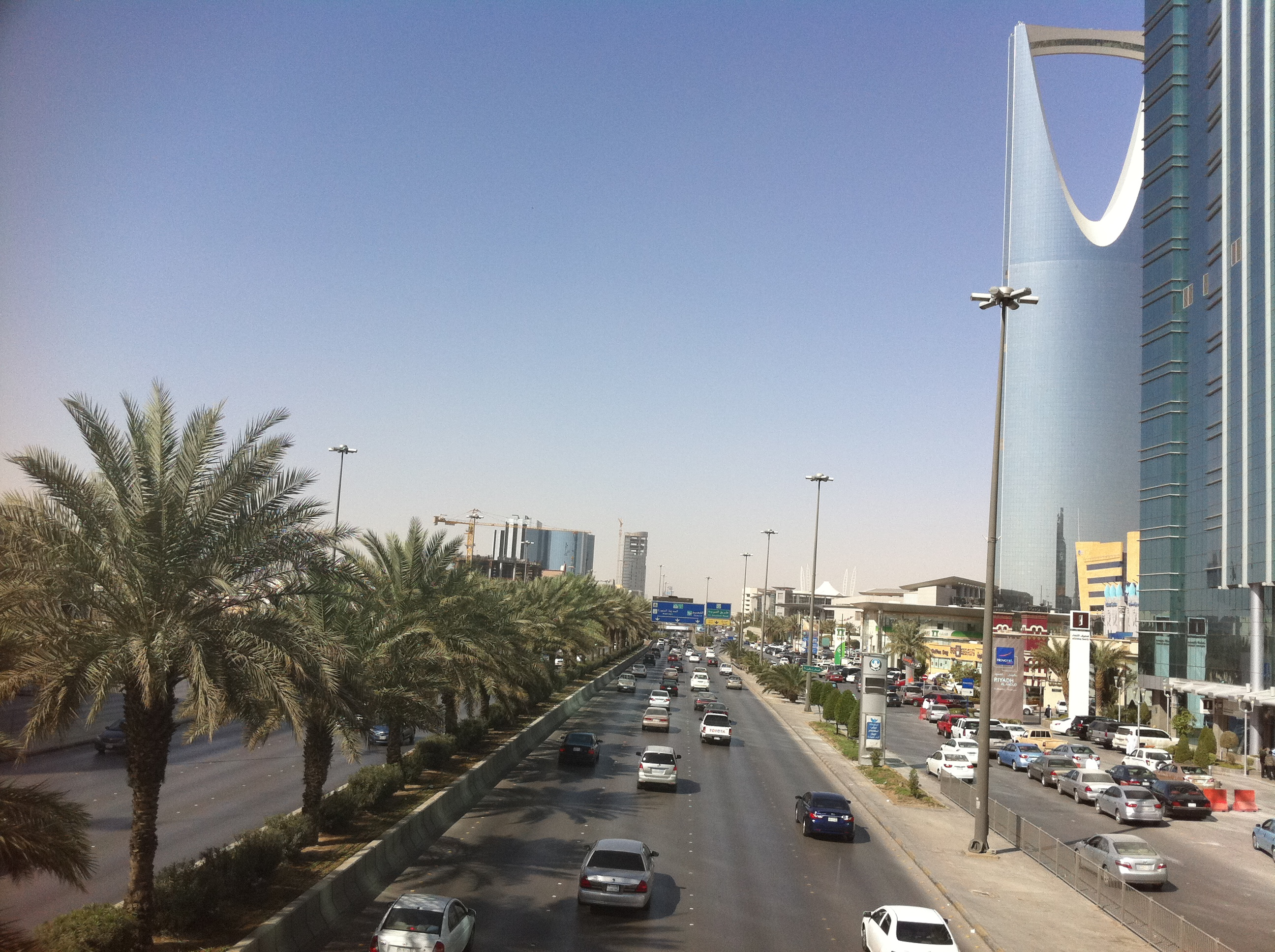 King Fahd Road Riyadh south to north